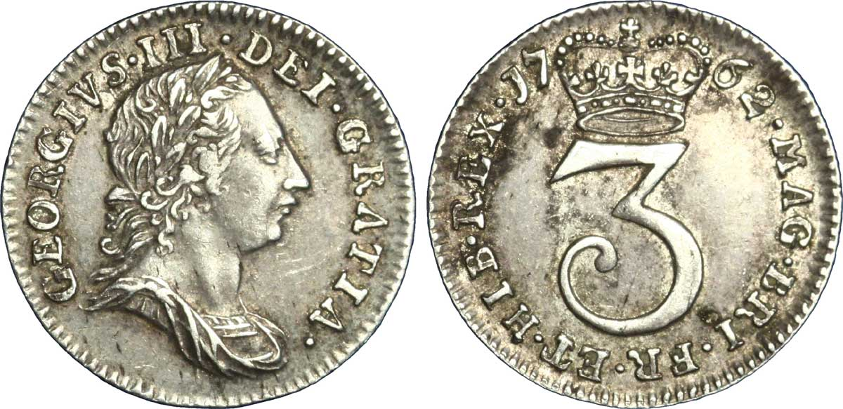 Maundy threepence, head of George III with crown of laurel, 1762